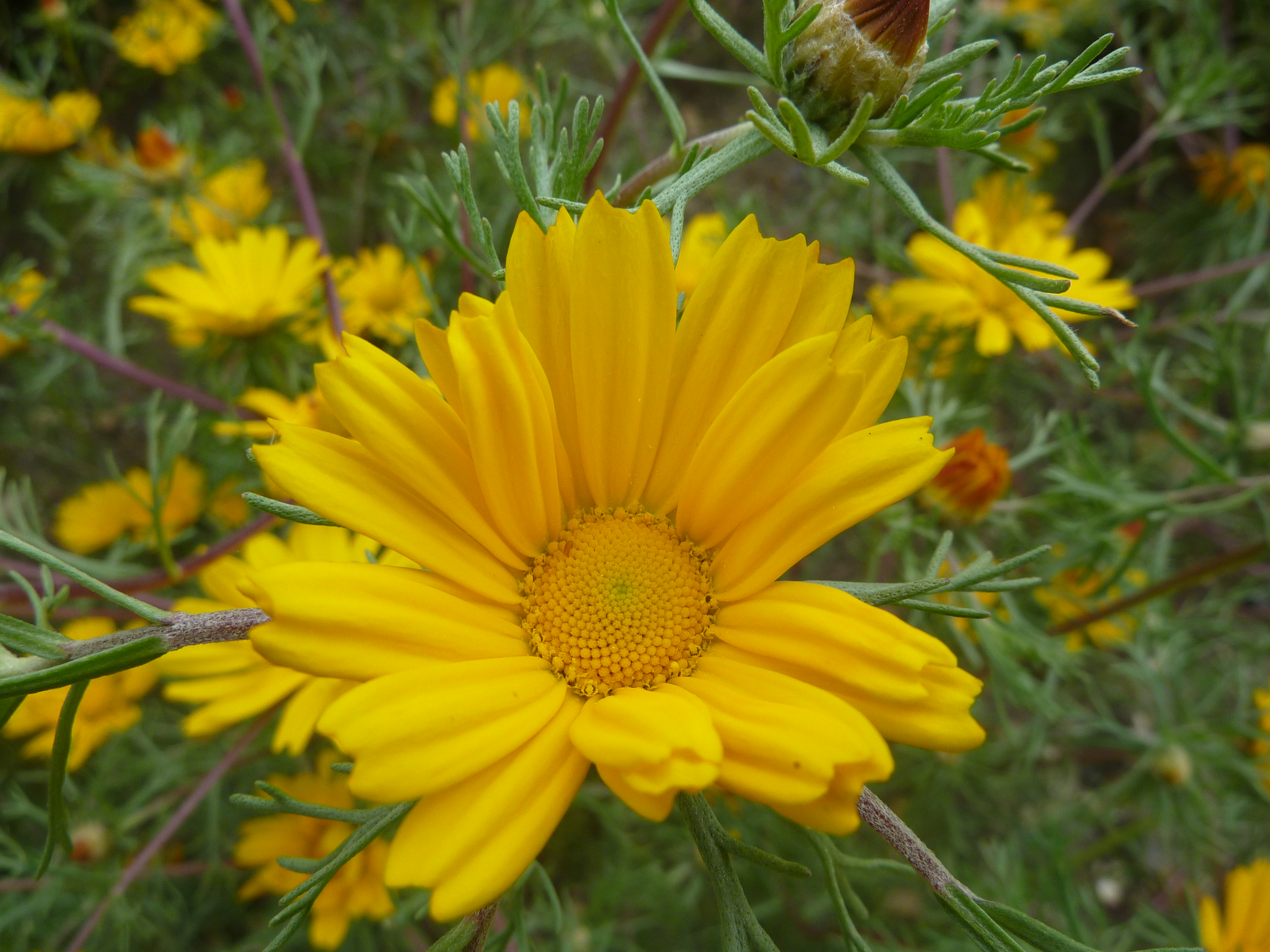 Taken in the Cambridge University Botanic Garden